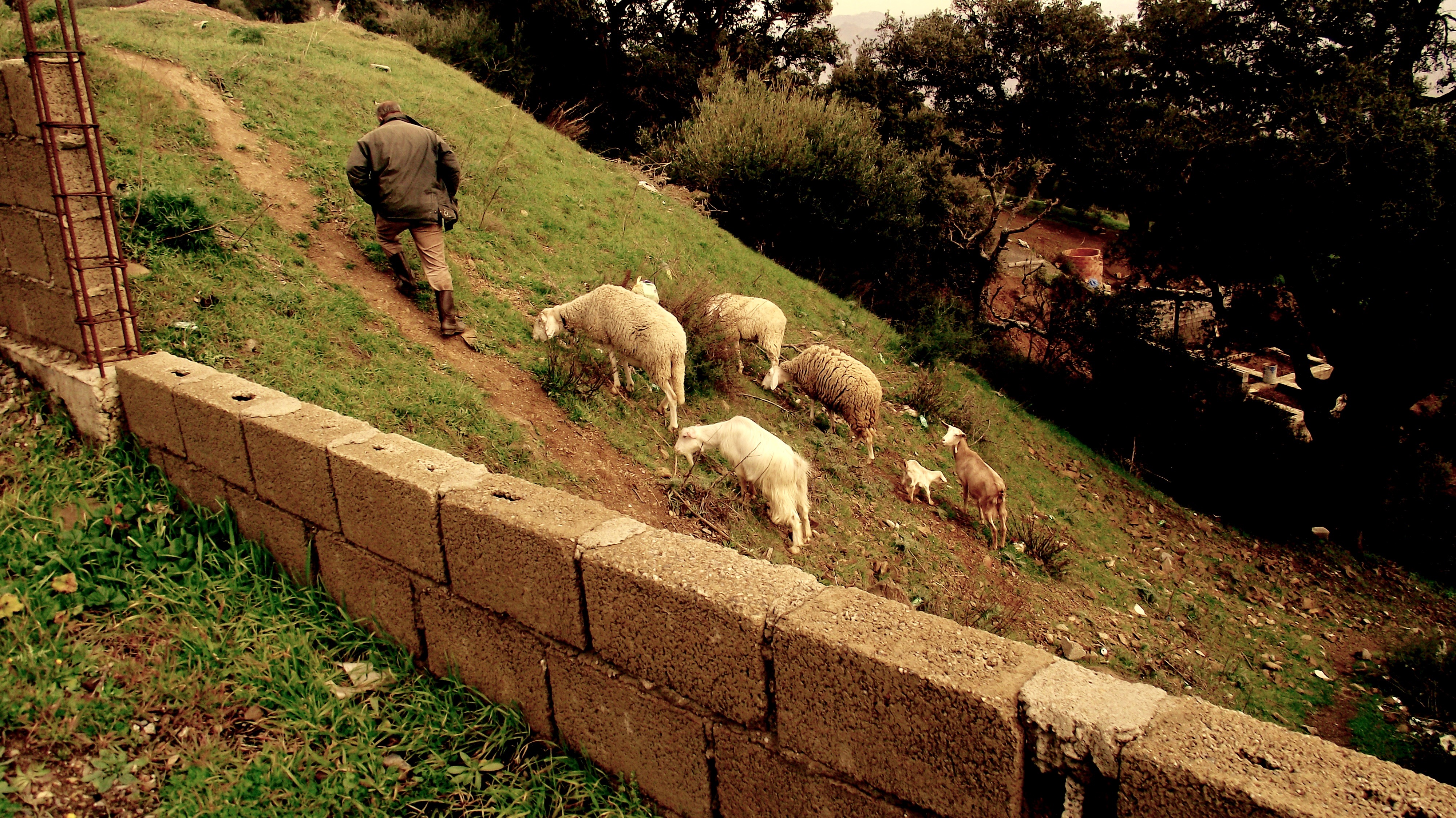 Following the colonization of Algeria in the 19th century, this Berber shepherd's family has sought refuge in Thamrouzgen hills in Kabylia. Today, this man lives in the exact same place to honour his ancestors and wishes to pass down this legacy to his children.